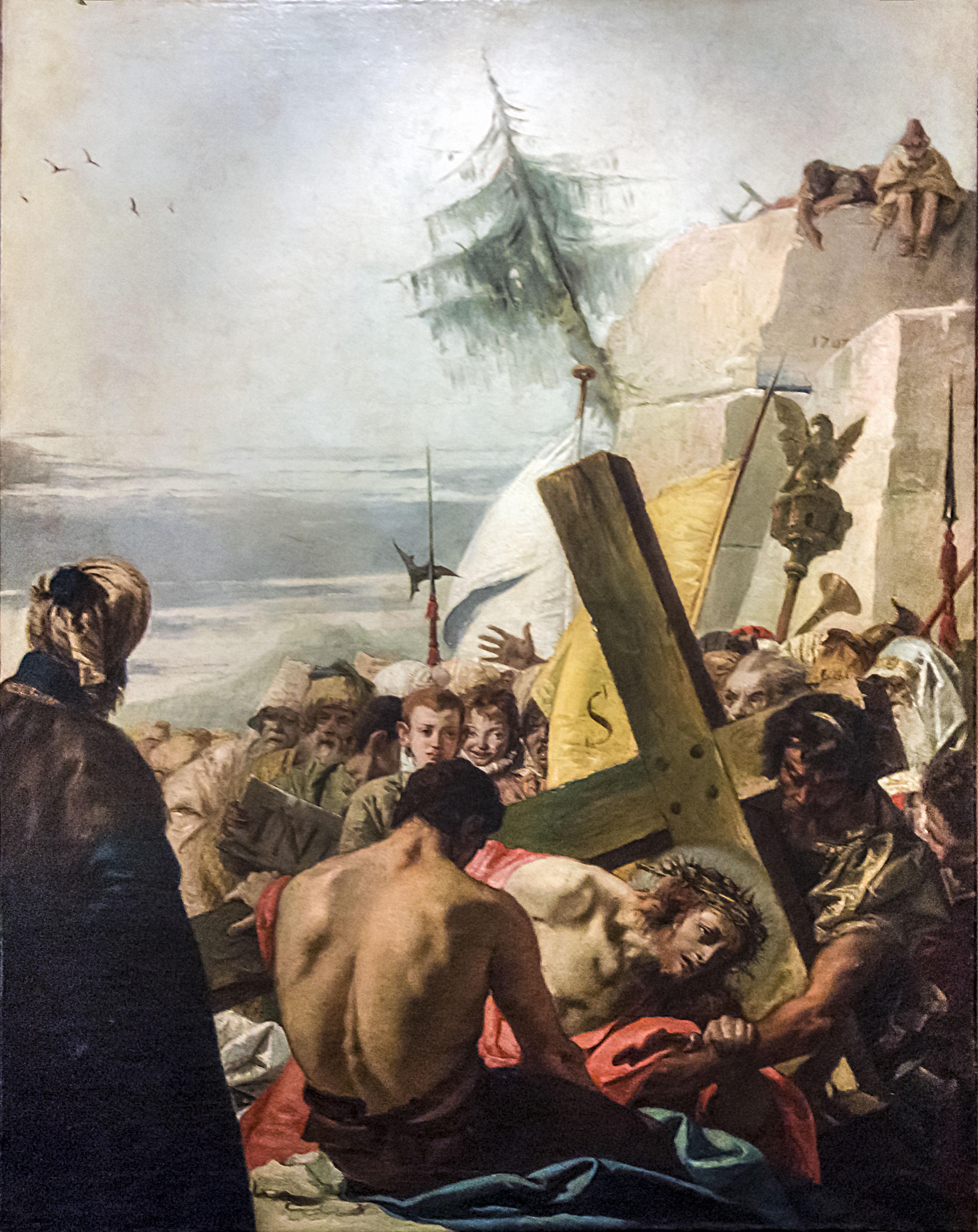 San Polo (church) - Oratory of the Crucifix - VIA CRUCIS IX - Jesus falls the third time by Giandomenico Tiepolo. Oil on canvas (1745 -1749).